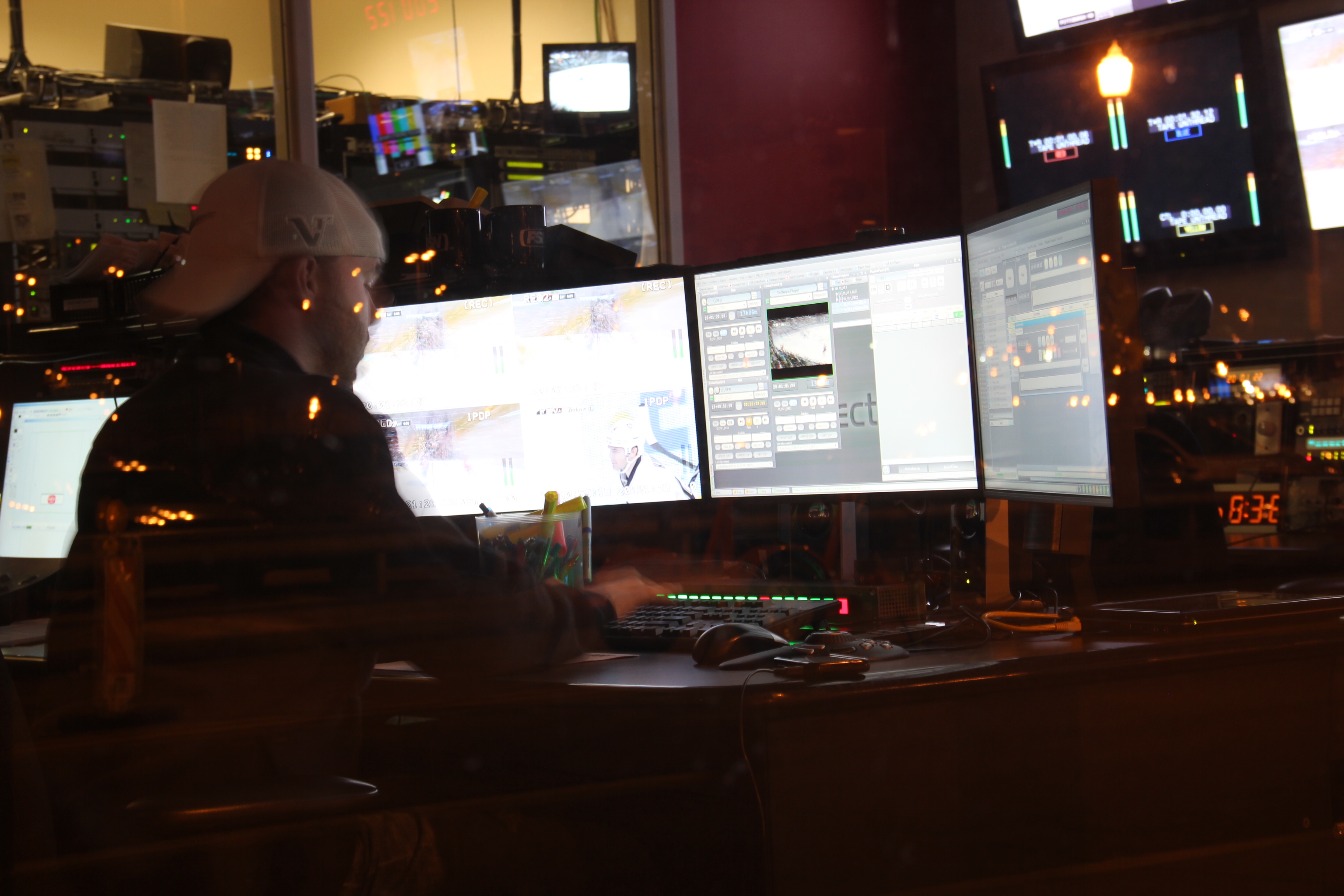 as they are doing live hockey TV game, Penguins vs Panthers. Pens lost, 3-2.